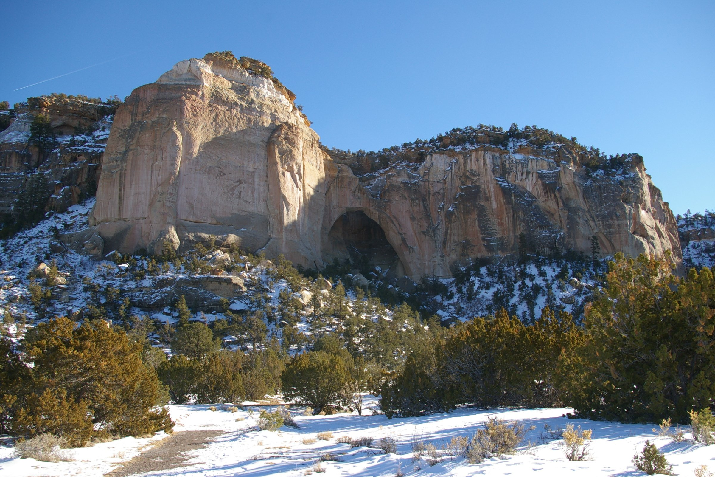 Ventana Arch, along the bluffs of Cebollita Mesa at Malpais National Monument — near Grants, northwestern New Mexico.